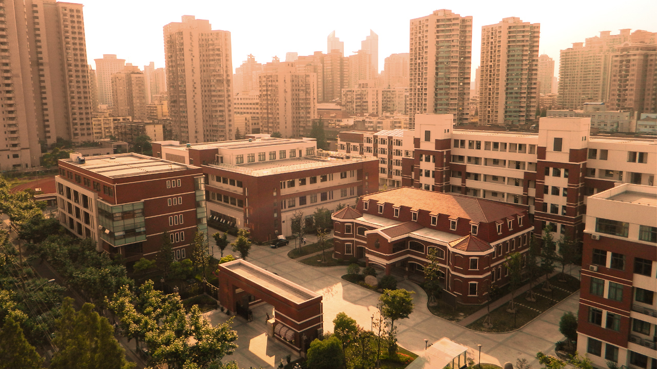 A whole view of Shanghai Nanyang Model Highs School Campus in the afternoon. In the foreground: the Red Building - the main administration office building in the school campus